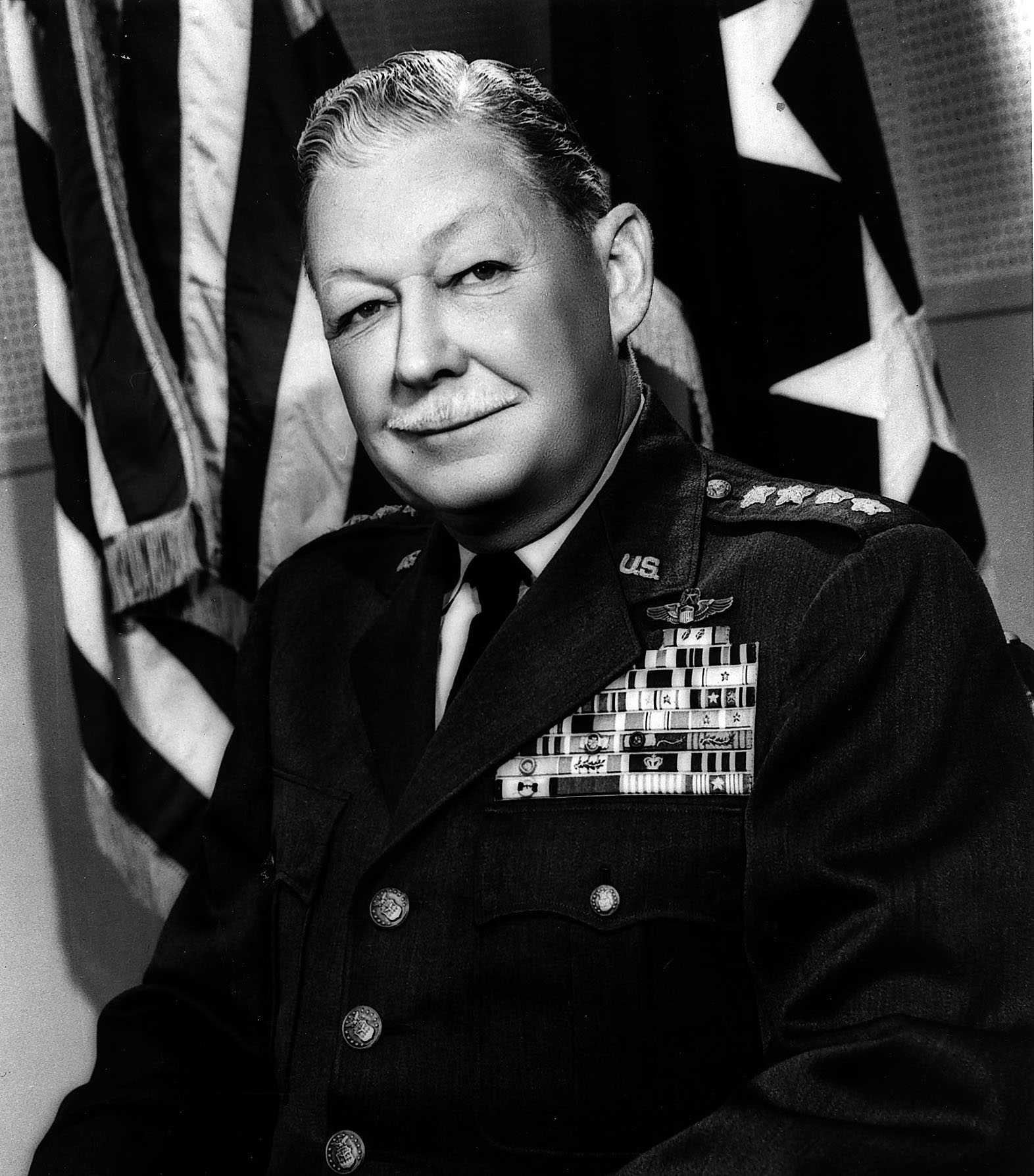 General Samuel E. Anderson from [1]